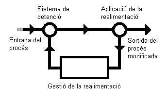 Diagram of simple feedback